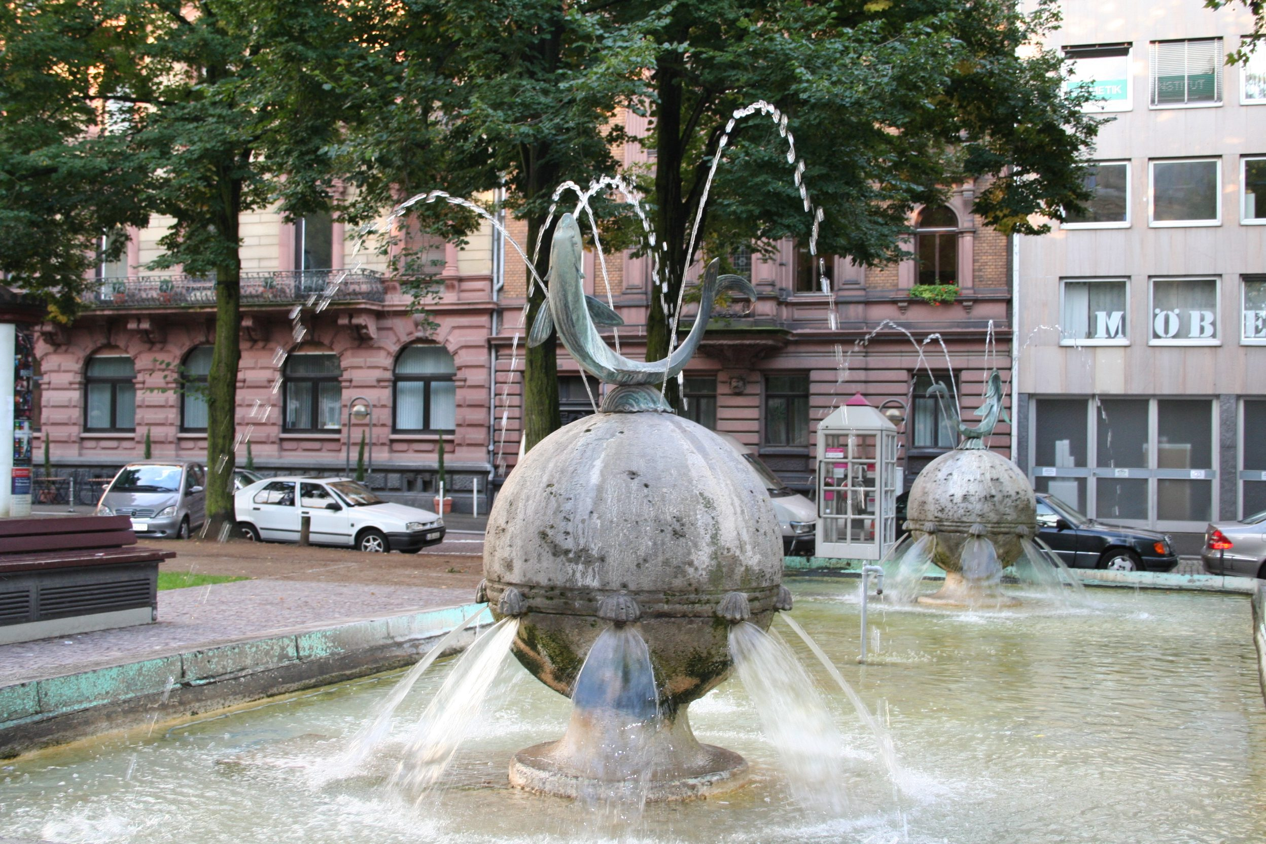 Fountain in Mainz, near former fish tower